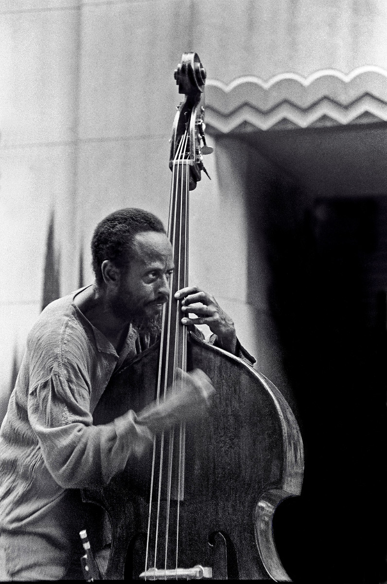 Percy Heath performing at the Heath Brothers concert, Rockefeller Center, NYC, June, 1977